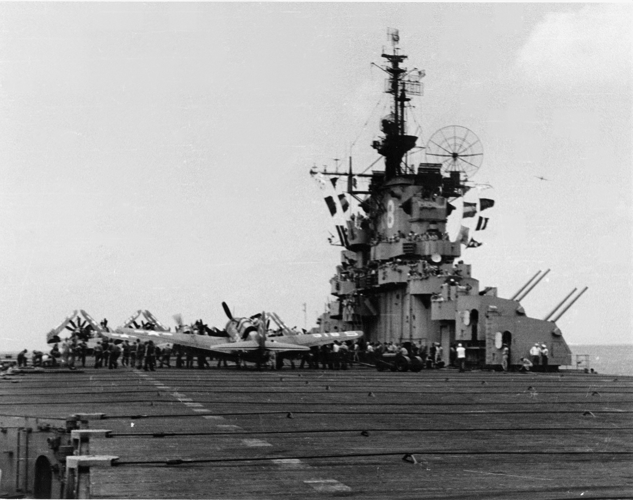 U.S. Navy Curtiss SB2C-5 Helldiver dive bombers of attack aquadron VA-5A parked forward on the flight deck of the aircraft carrier USS Shangri-La (CV-38) during a Western Pacific cruise, in 1947. Tracing its origins to 1928, this squadron operated under the designations Scouting Squadron Three (VS-3) and Bombing Squadron Five (VB-5) during World War II, participating in the Battle of Eastern Solomons and raids on the Marshall Islands and Truk. Designated VA-5A in 1946, the squadron became VA-54 in 1948. It was the last fleet squadron to operate the SB2C. During 1947, the squadron completed a Western Pacific cruise aboard USS Shangri-La (CV-38), being assigend to Carrier Air Group Five (CVAG-5).